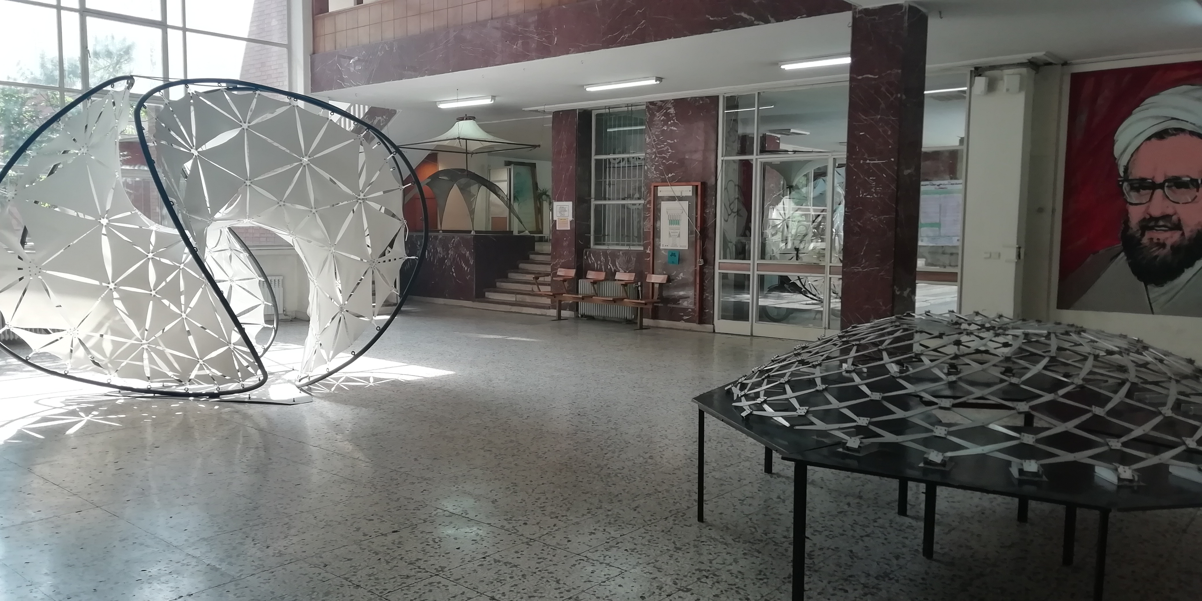 Main Lobby in Faculty of Architecture and Urban Planning, Shahid Beheshti University, Tehran, Iran.